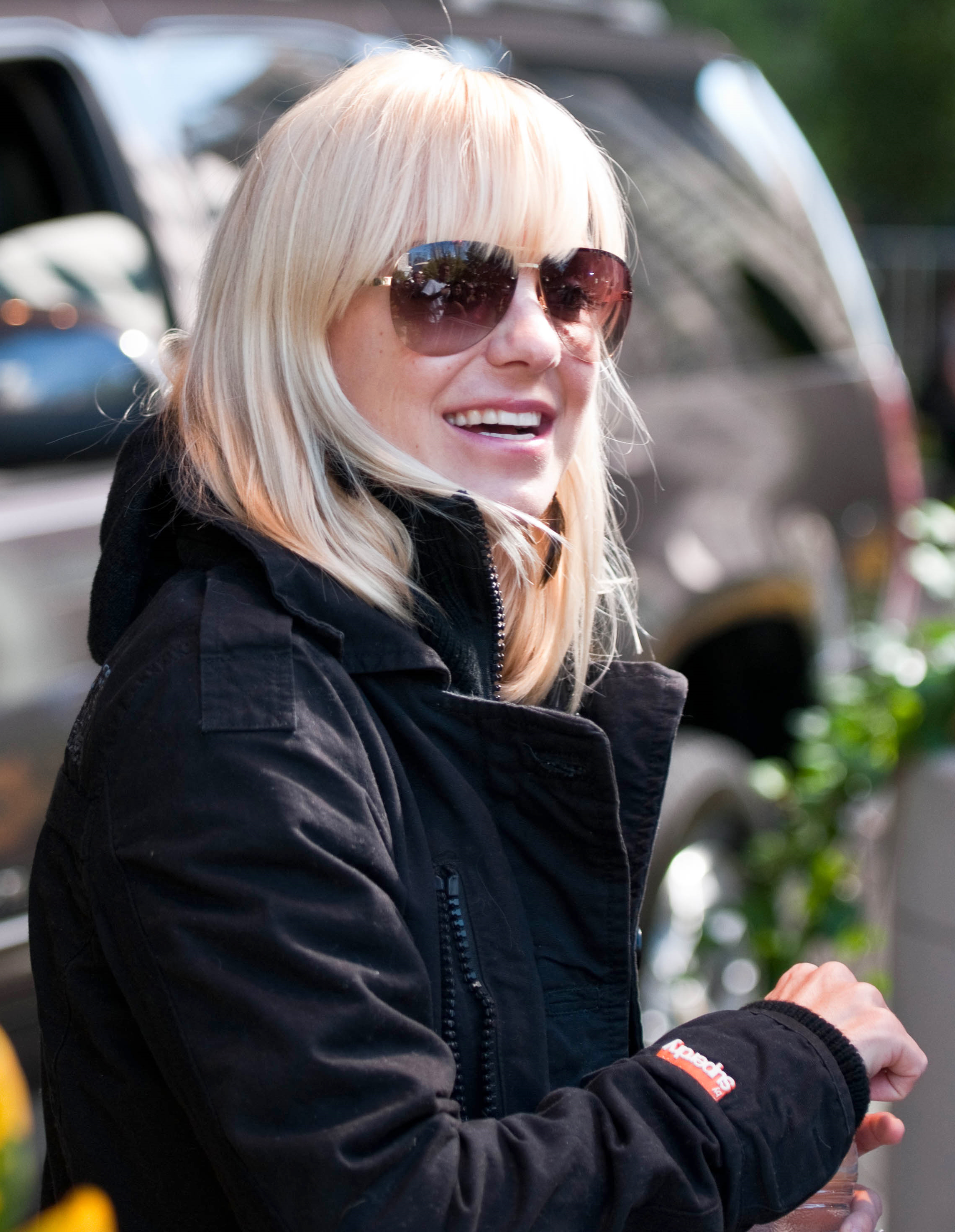 Anna Faris at the Toronto International Film Festival 2011.